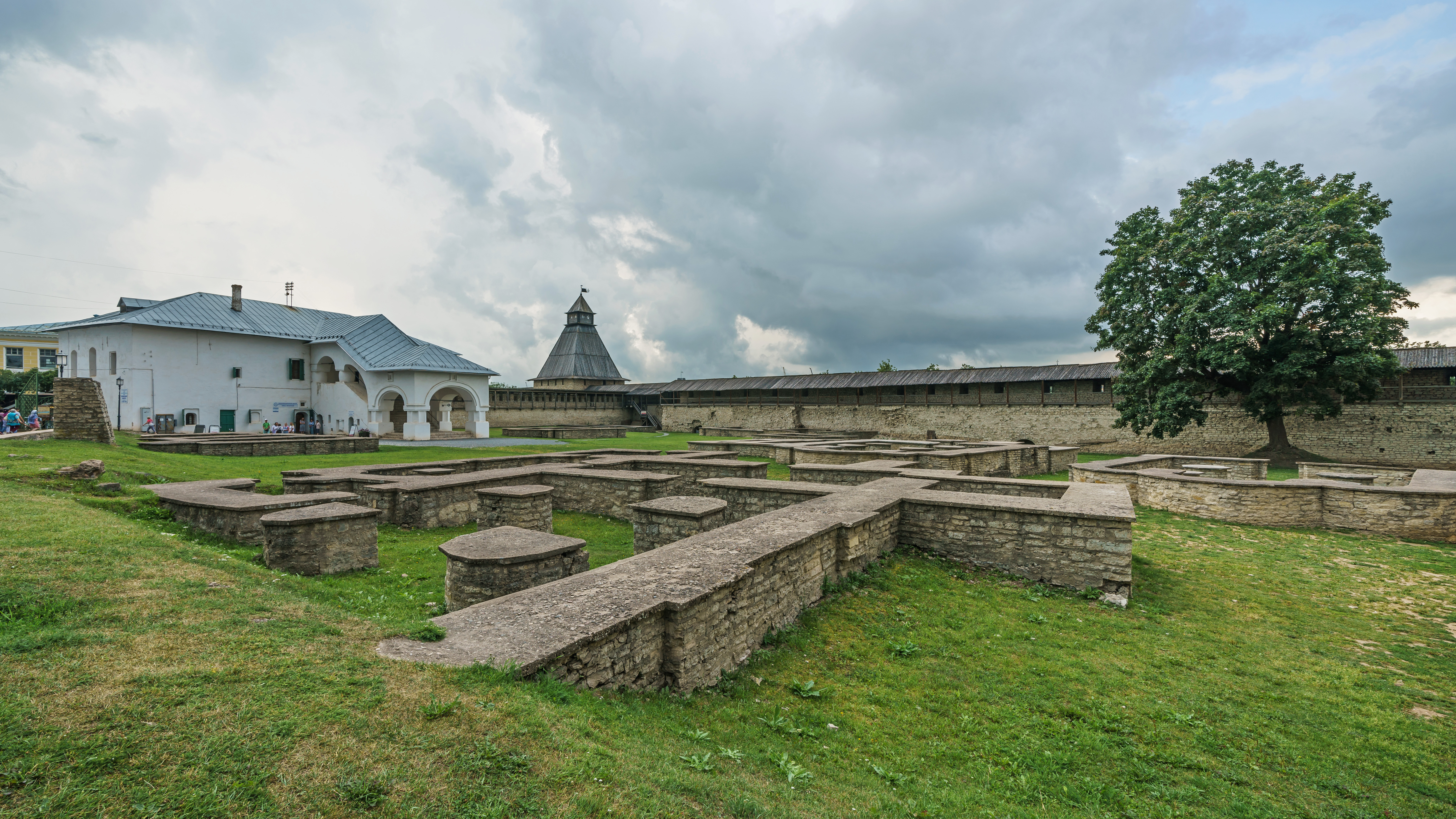 Remains of Daumantas Town at the Kremlin in Pskov, Russia